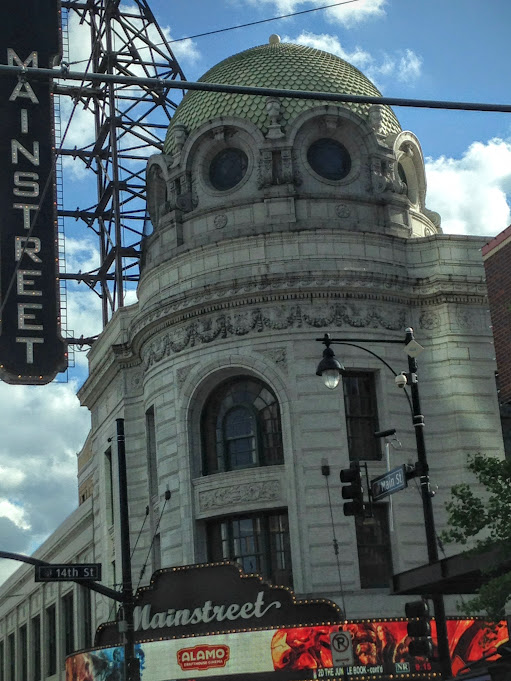 The Alamo Draft House on Main Street.